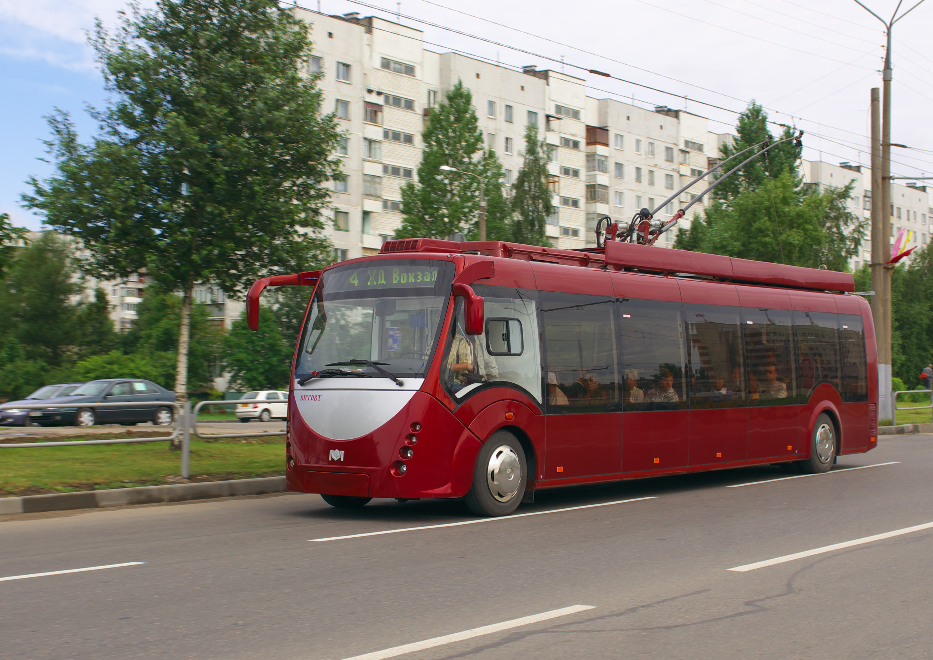 AKSM-420 Vitovt trolleybus on street in Vitebsk